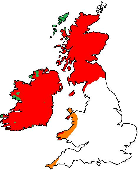 This image shows the maximum area where Old Irish or Gaelic was spoken (red), including Ireland, Scotland, Isle of Man, and also some places in northern England, western Wales and Cornwall. The image shows the area where there are stones with Ogham inscriptions (orange). Most of these stones are written in old Irish. The green areas are those where Gaelic is still spoken as the vernacular.